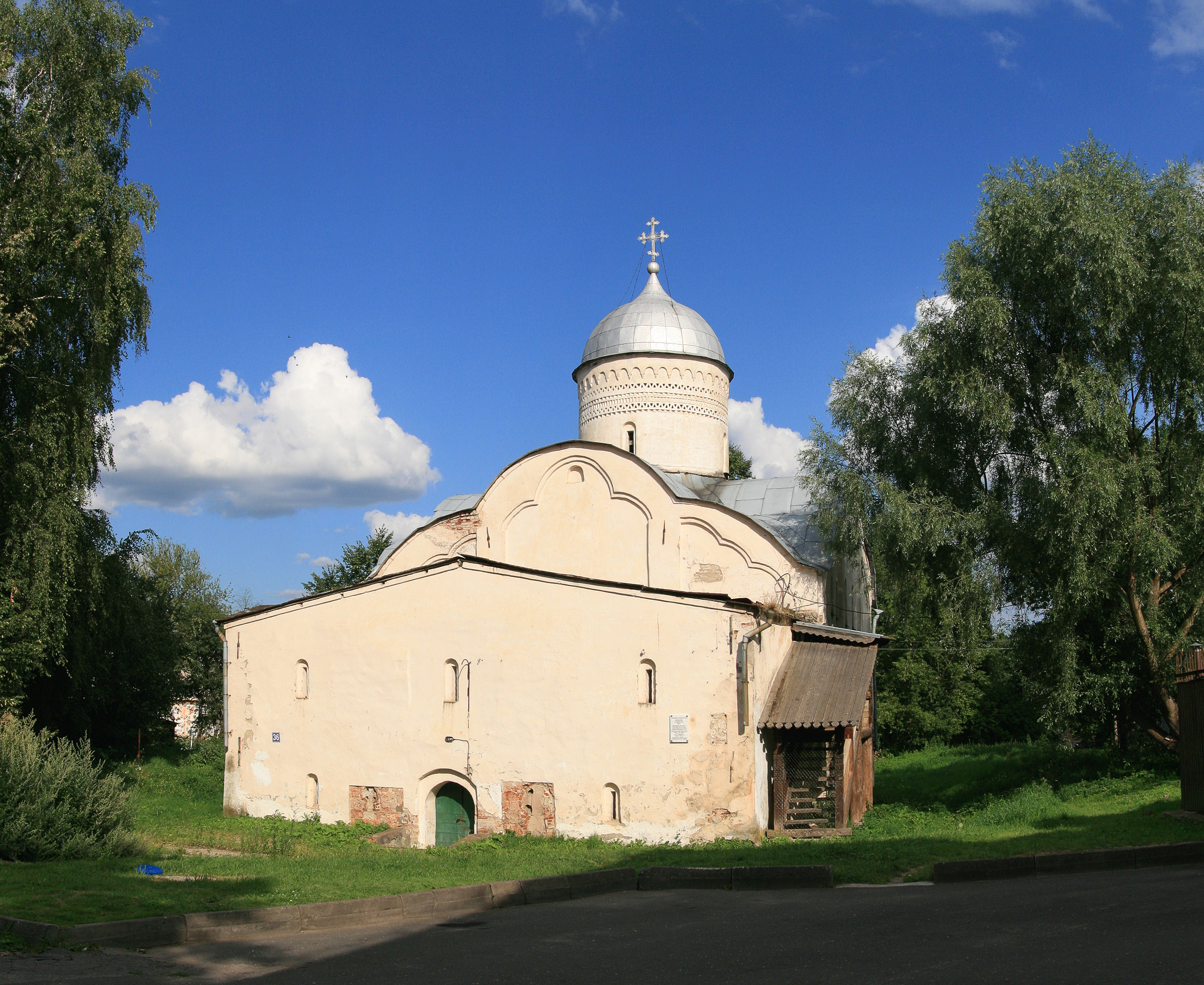 Kliment church, Veliky Novgorod, 1520